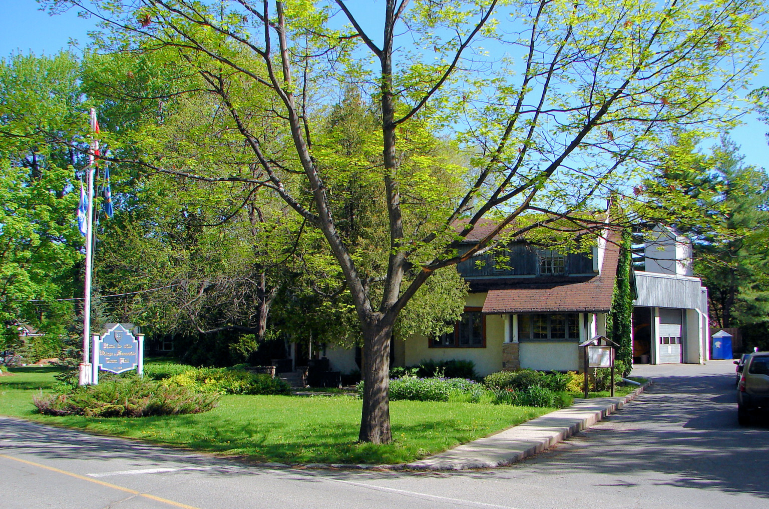 Town Hall of Senneville, Quebec, Canada